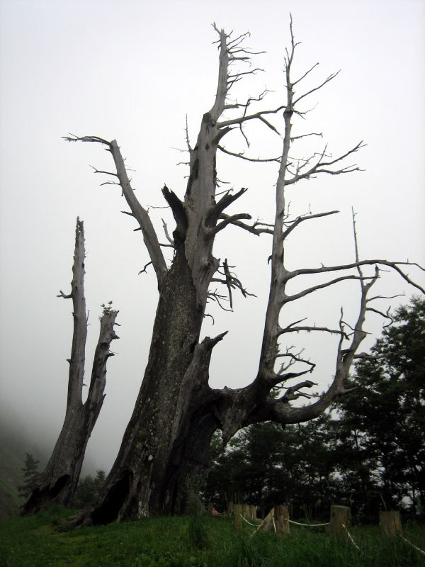 These are the 'Husband and Wife Trees', or Fūqī Shù 夫妻樹, which you can see soon after driving into the Yu Shan National Park.